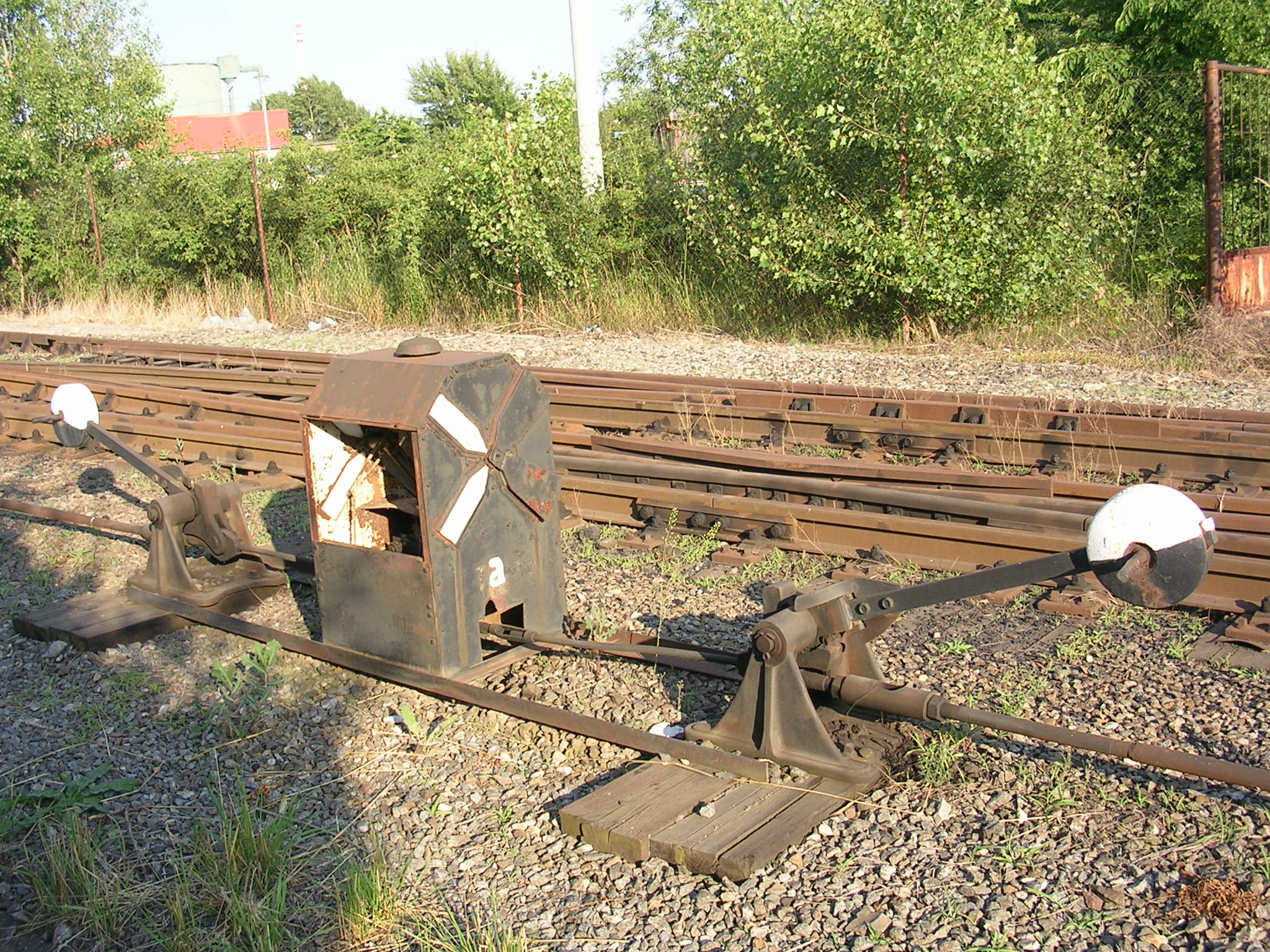 Malešice, Prague, the Czech Republic.